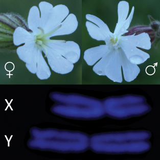 Pictures of female and male flowers (top) and the X and Y chromosomes (bottom) in Silene latifolia. Image credit: Jos Käfer and Roman Hobza.